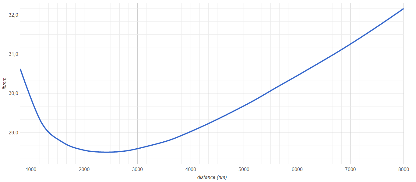 777-224 fuel burn per distance against range diagram